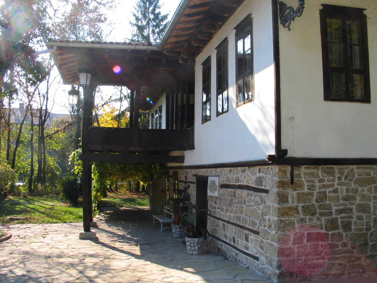 Museum of Liberation War, town of Byala, Rousse District, Bulgaria